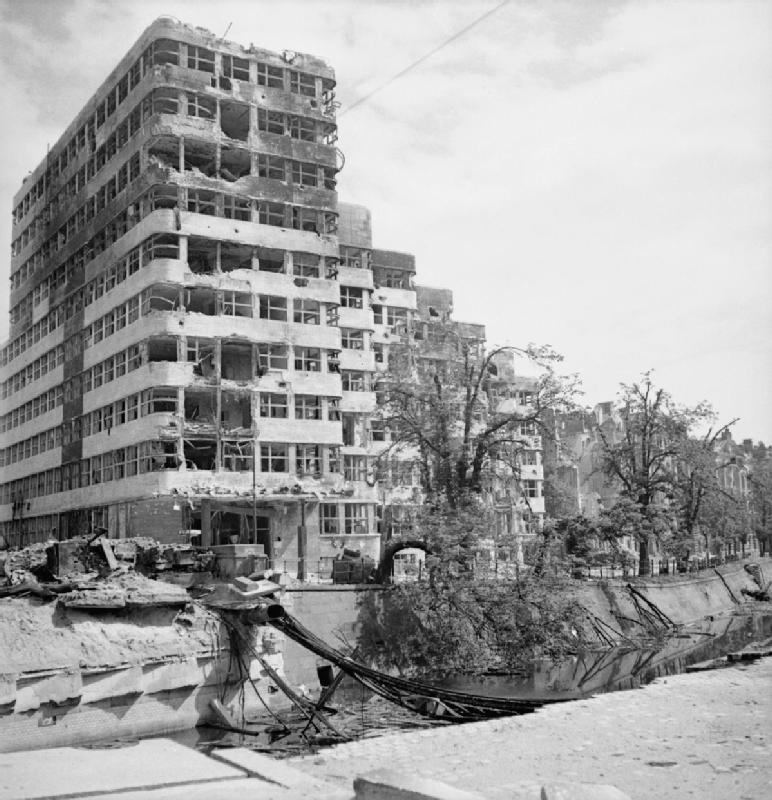 Shell House, a modernist office building in Berlin, after World War II. Original description: "Germany Under Allied Occupation Modern flats in Berlin bearing the scars of war."